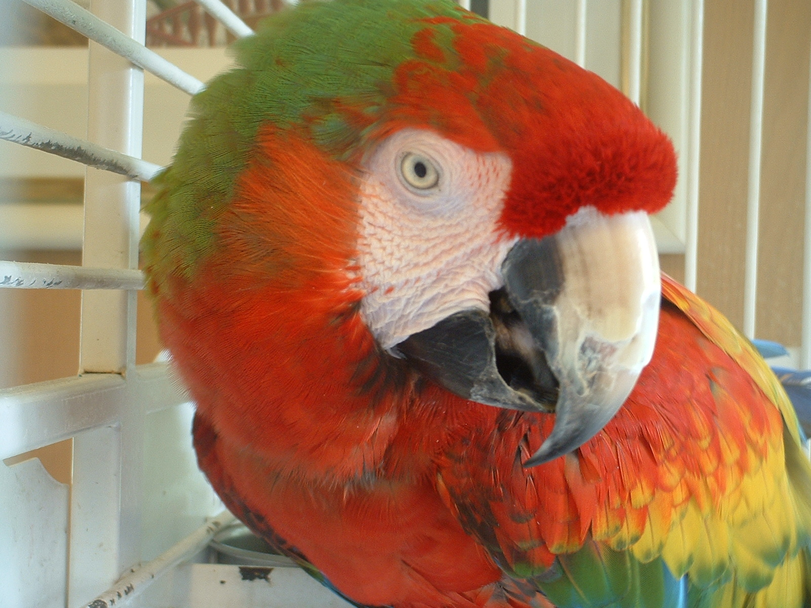 A Catalina Macaw (Ara ararauna x Ara macao) from Minnesota